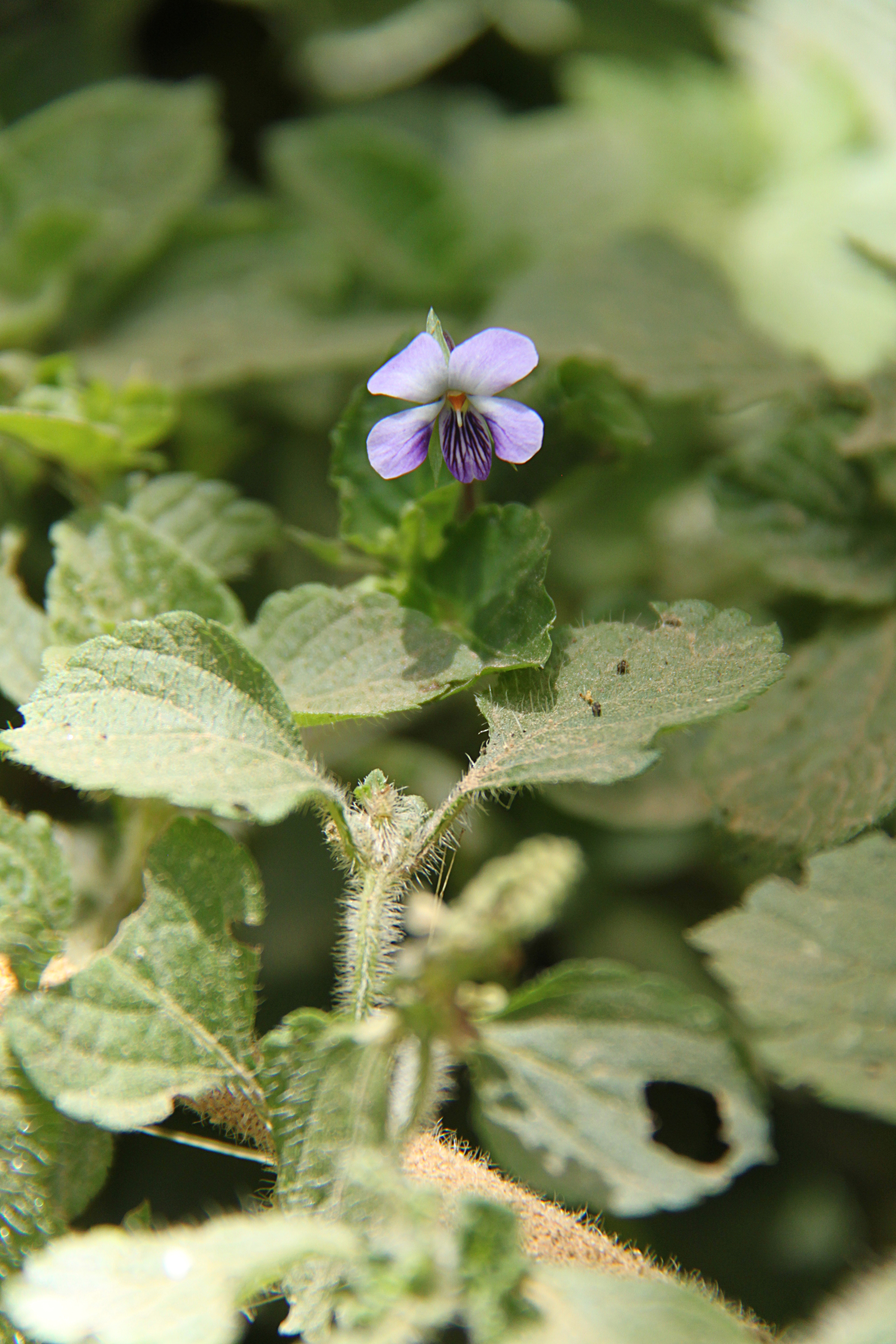 The violet Viola abyssinica, flower about 1 cm across, photographed at approximately 2750 m altitude, along the Chogoria route, Mount Kenya